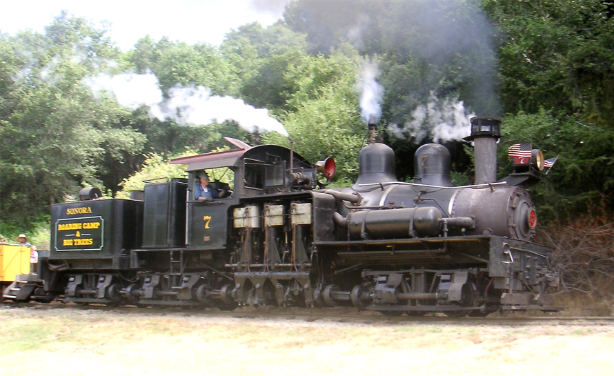 Class C Shay locomotive Sonora. Image by User:Leonard G. Category:Images of American steam locomotives Class C Shay locomotive Sonora. Image by User:Leonard G.